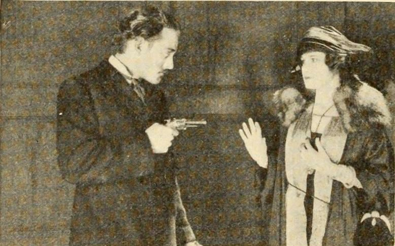 Still with Conrad Nagel and Elsie Ferguson in the now-lost American silent drama film Sacred and Profane Love (1921), from Page 60 of the July 1921 Photoplay magazine.